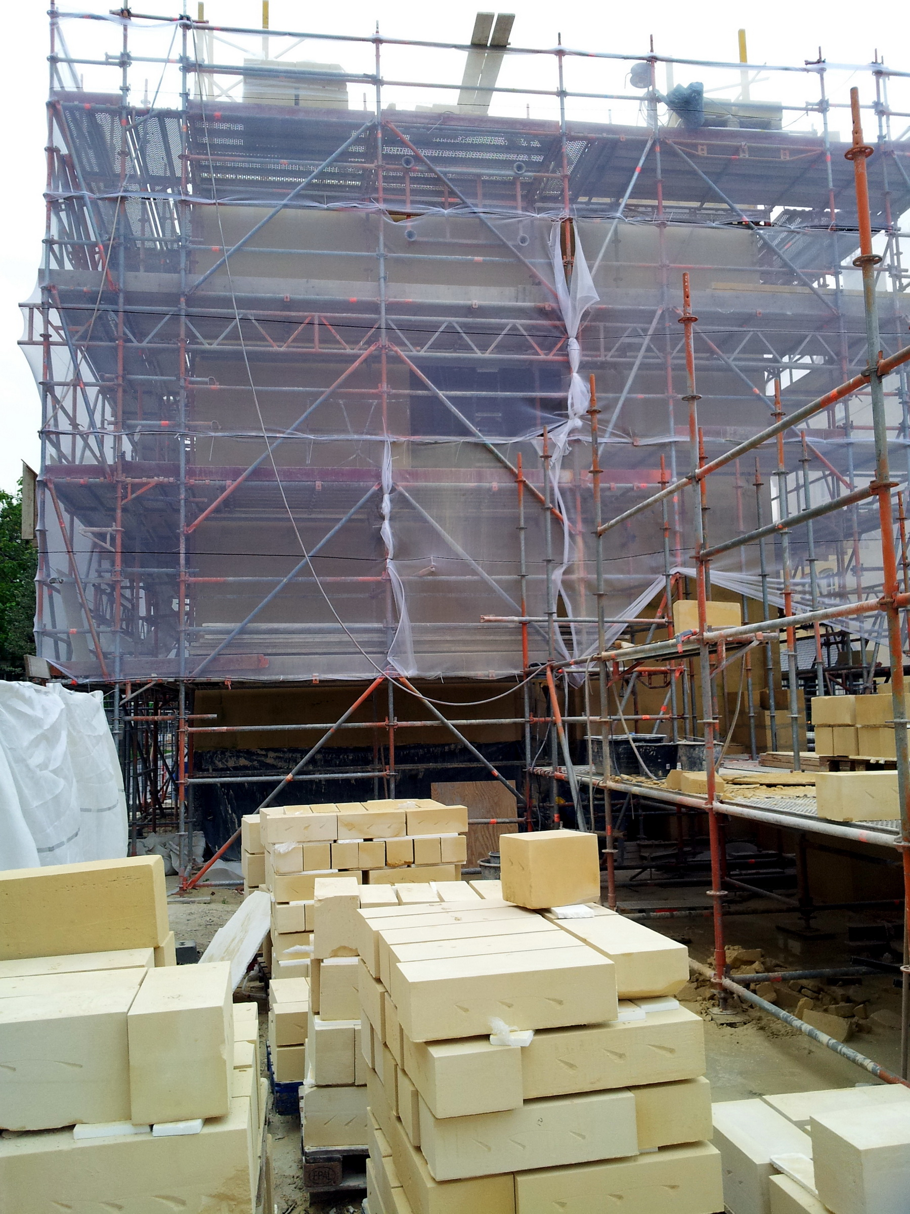 Valkenburg, Limburg, Netherlands. The rebuilding of Geulpoort with local limestone from the Sibbe quarry. Geulpoort, one of originally three medieval city gates, was demolished in the 17th century but reconstructed in 2014-2015.